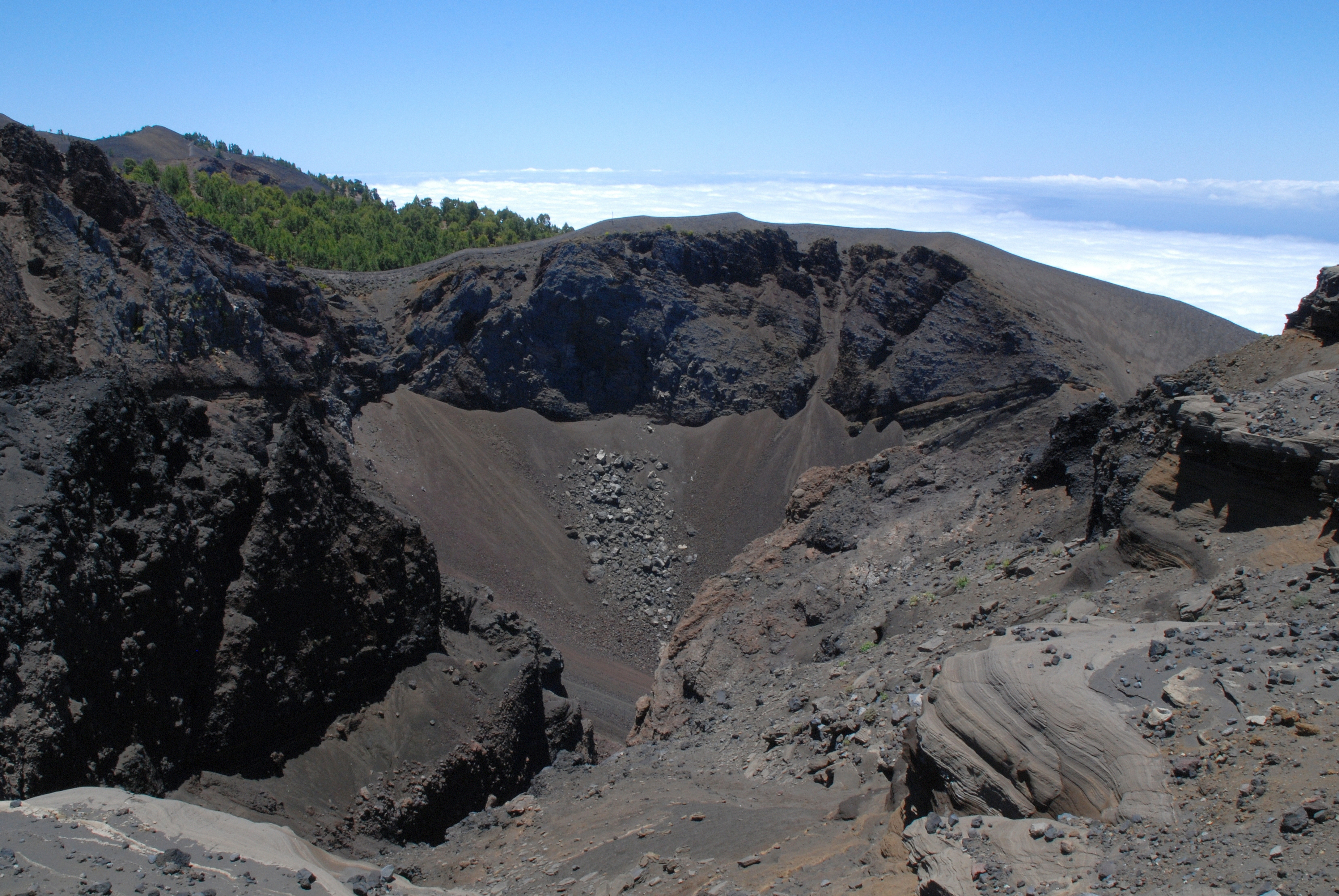 Crater del Hoyo Negro, La Palma, Spain